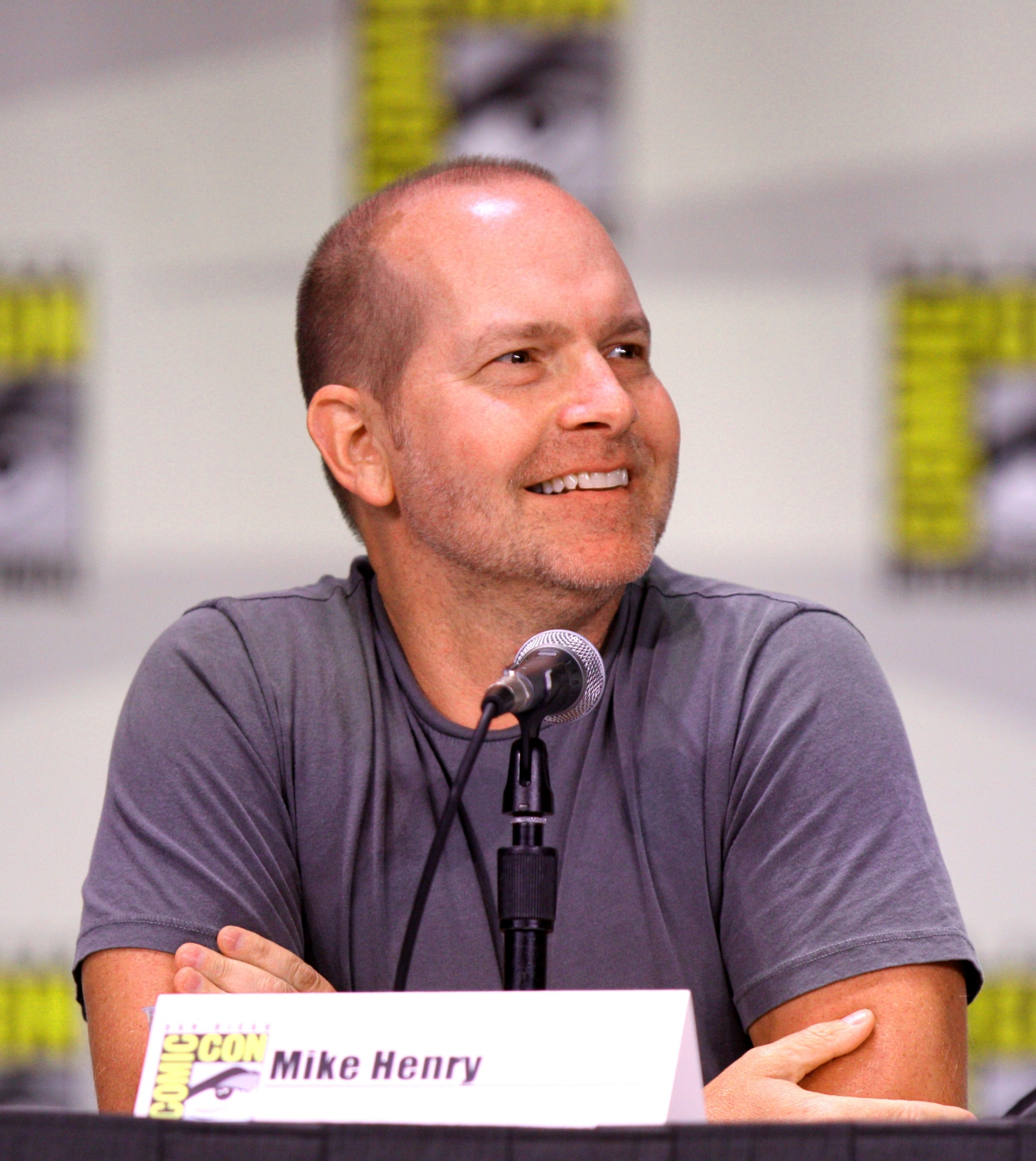 Mike Henry at the 2011 San Diego Comic-Con International in San Diego, California.